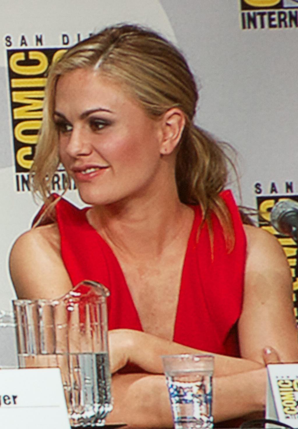 The True Blood Panel at 2011 San Diego International Comic-Con